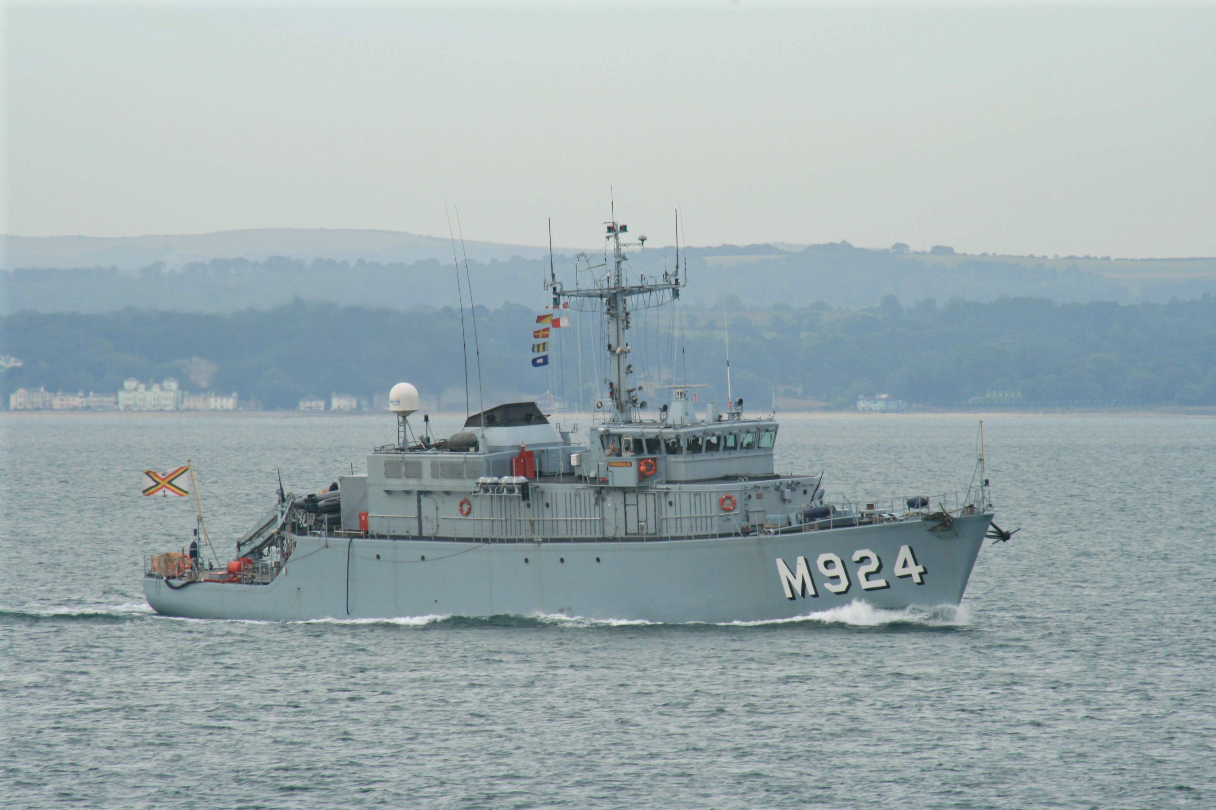 The Belgian minesweeper BNS Primula at Spithead, inbound to Portsmouth Naval Base on 09 July 2010 in company with the Belgian minesweeper support ship BNS Godetia and the minesweeper BNS Bellis. Image uploaded by me User:George.Hutchinson from a photograph taken by and supplied by Brian Burnell. The photograph should be attributed to Brian Burnell in this format. Wikipedia editors are reminded that the copyright remains with the photographer, and that the terms of the Creative Commons Attribution-ShareAlike 3.0 Unported Licence that allow editors to reuse this image apply to Wikipedia editors also, as they do to other reusers of this image. Breaches of the licence terms are not only unlawful, but are also antisocial, in that breaches discourage photographers from making their images freely available to everyone without payment. Non-Wikipedia users are requested to advise Brian Burnell of its use other than on Wikipedia.